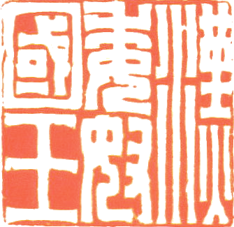 Baiwen imprint of the King of Na gold seal.